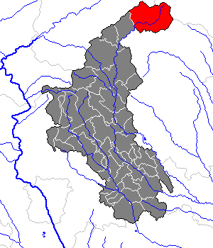 This map shows the area of the Gemeinde (municipality) Rettenegg in the Bezirk (district) Weiz, Styria, Austria.